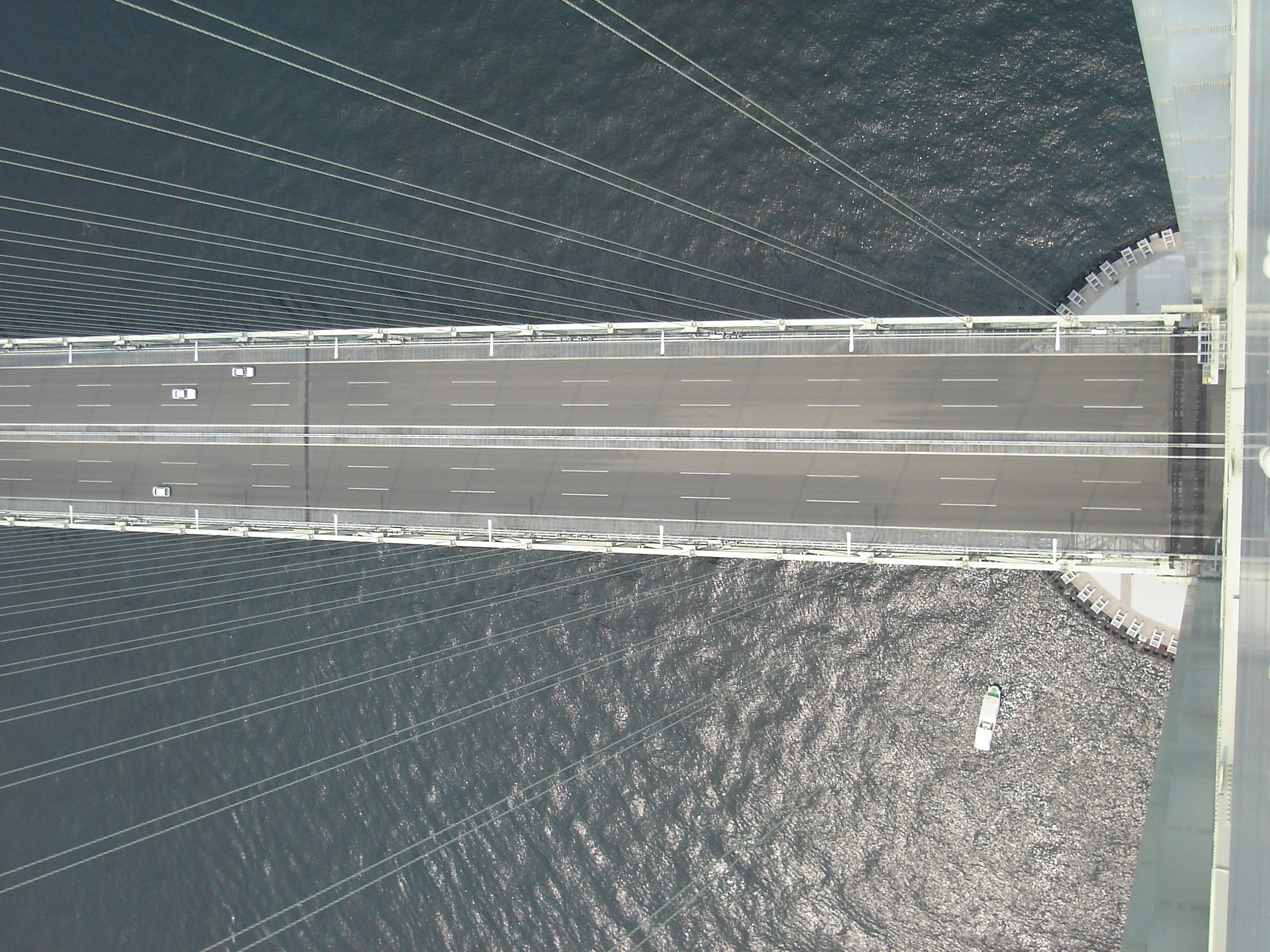 View from tower of Akashi-kaikyo oohashi.